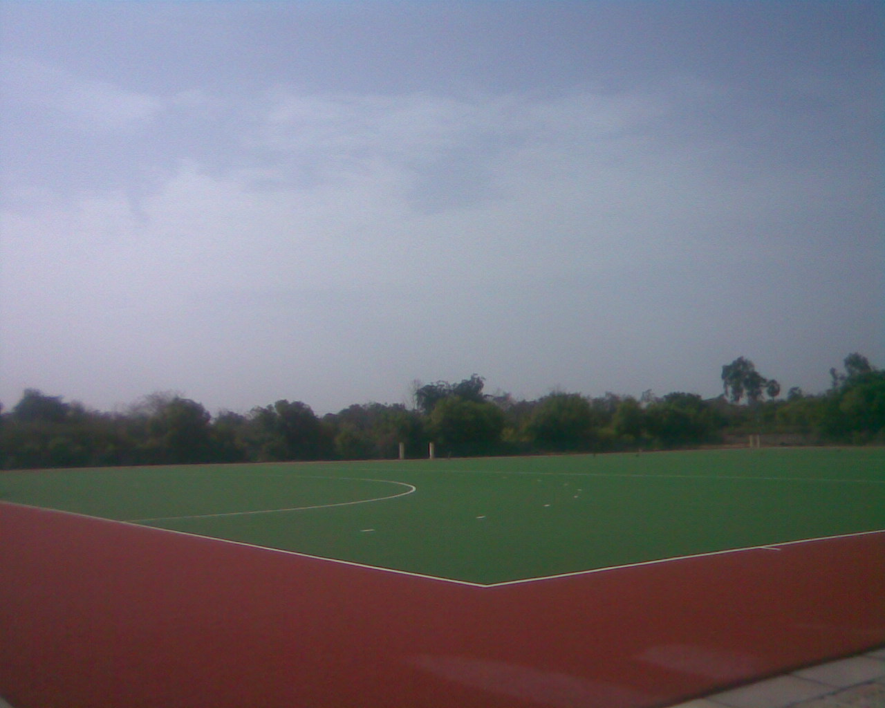 Newly laid astro turf on the hockey ground at Anna Stadium, Trichy